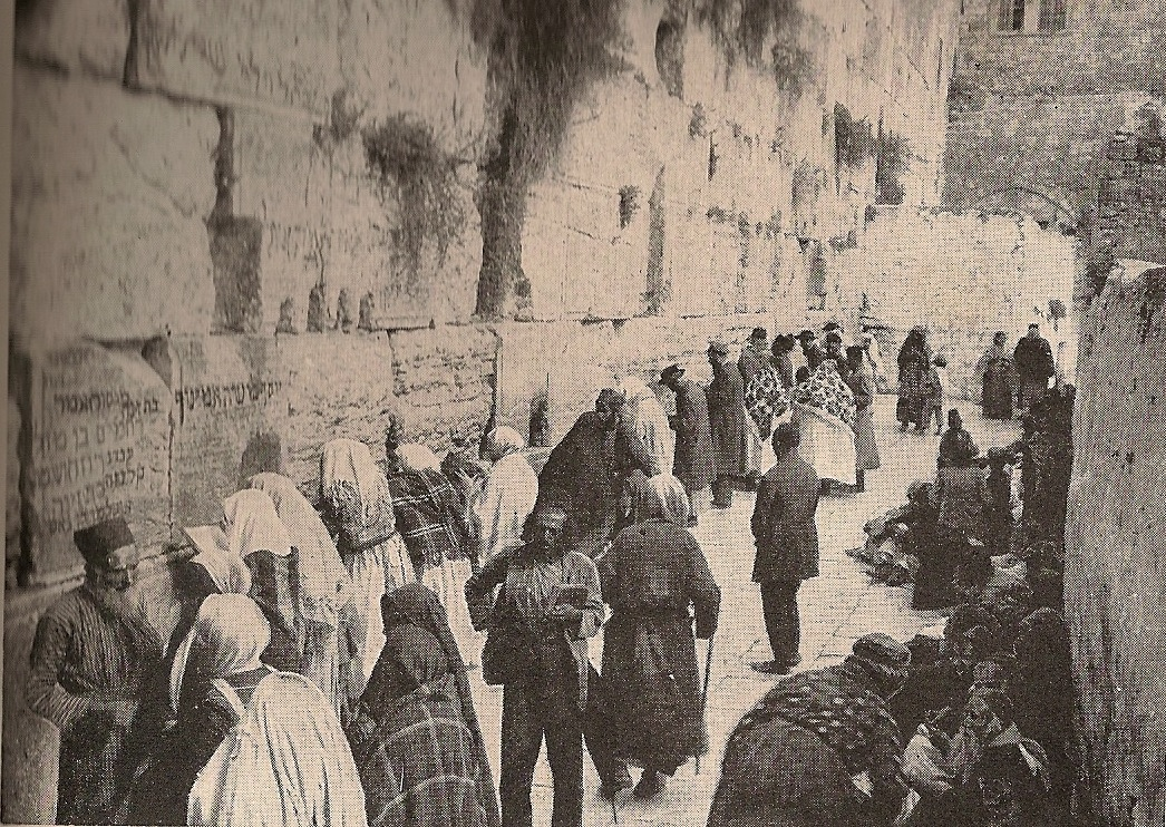 Wailing Wall pre-1920